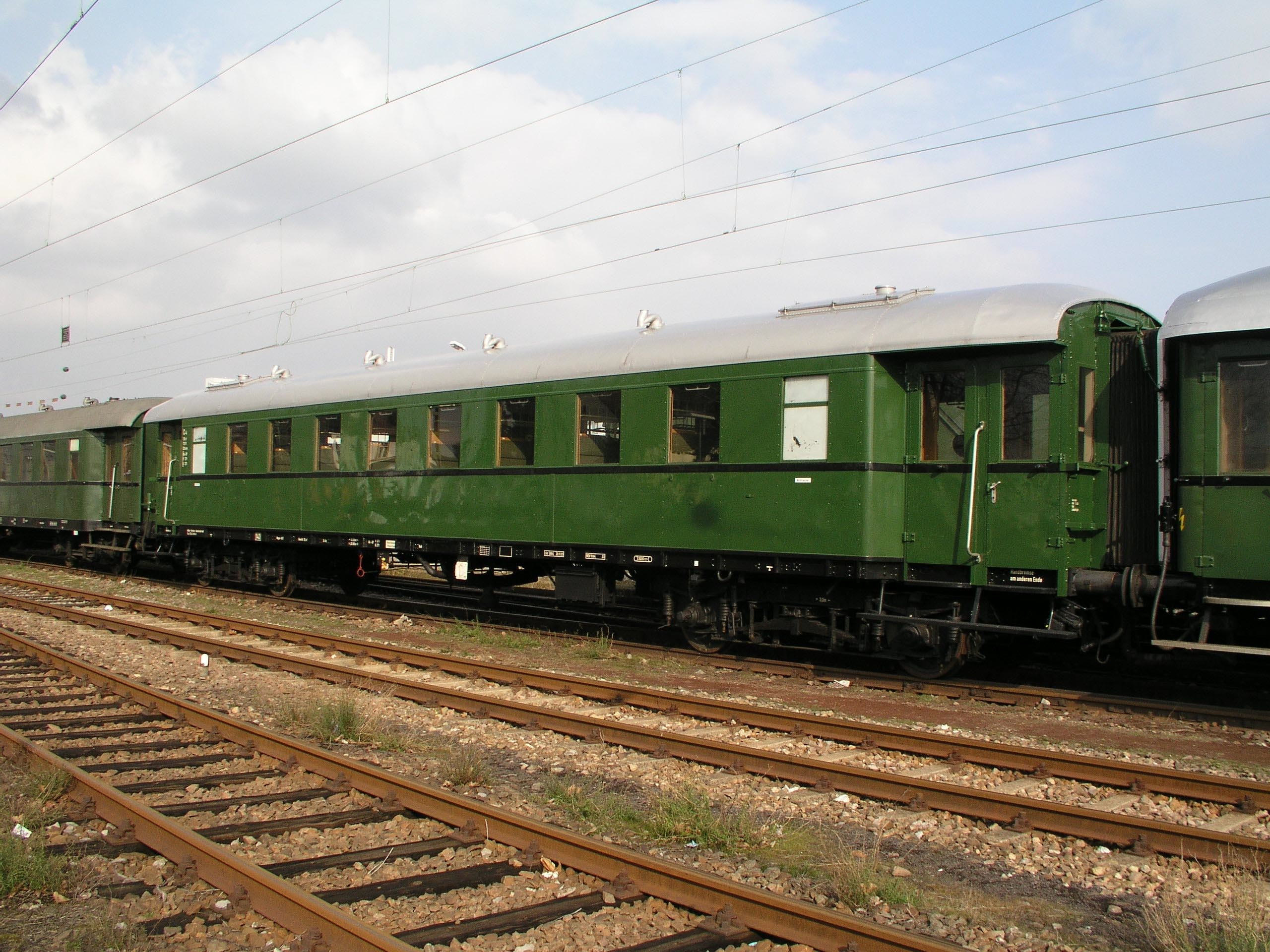 German railway coach, series "Bye 655" from 1930-1932, for semi-rapid trains. Now run by the railway heritage club of Ulmer Eisenbahnfreunde e.V.